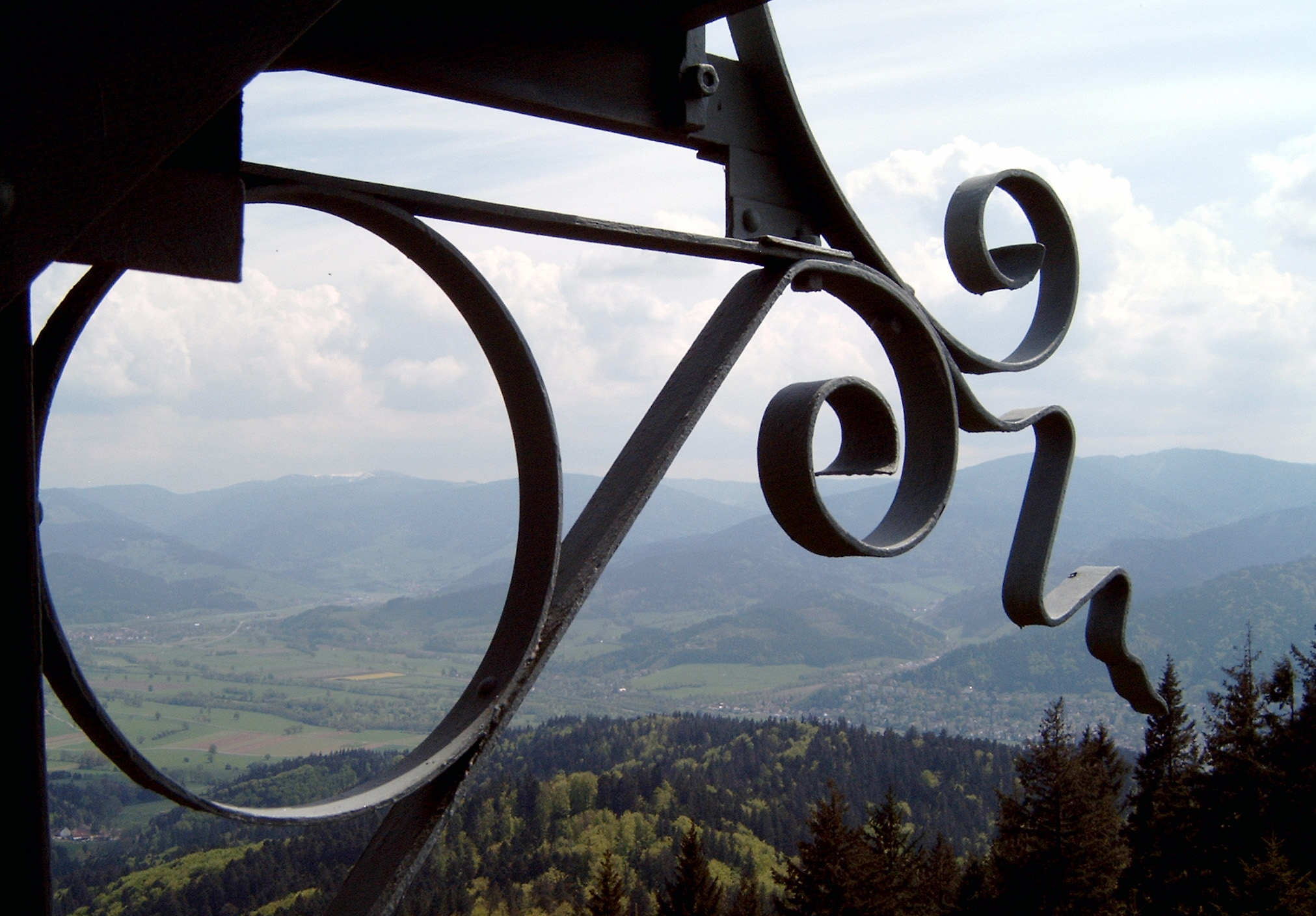 View from the Rosskopf tower to the valley of the Dreisam, snow covered Feldberg in the background